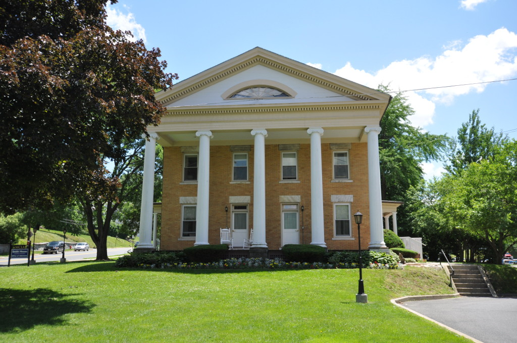 Smith House on the campus of the Massachusetts College of Liberal Arts, also in the Normal School Historic District, North Adams, Massachusetts.